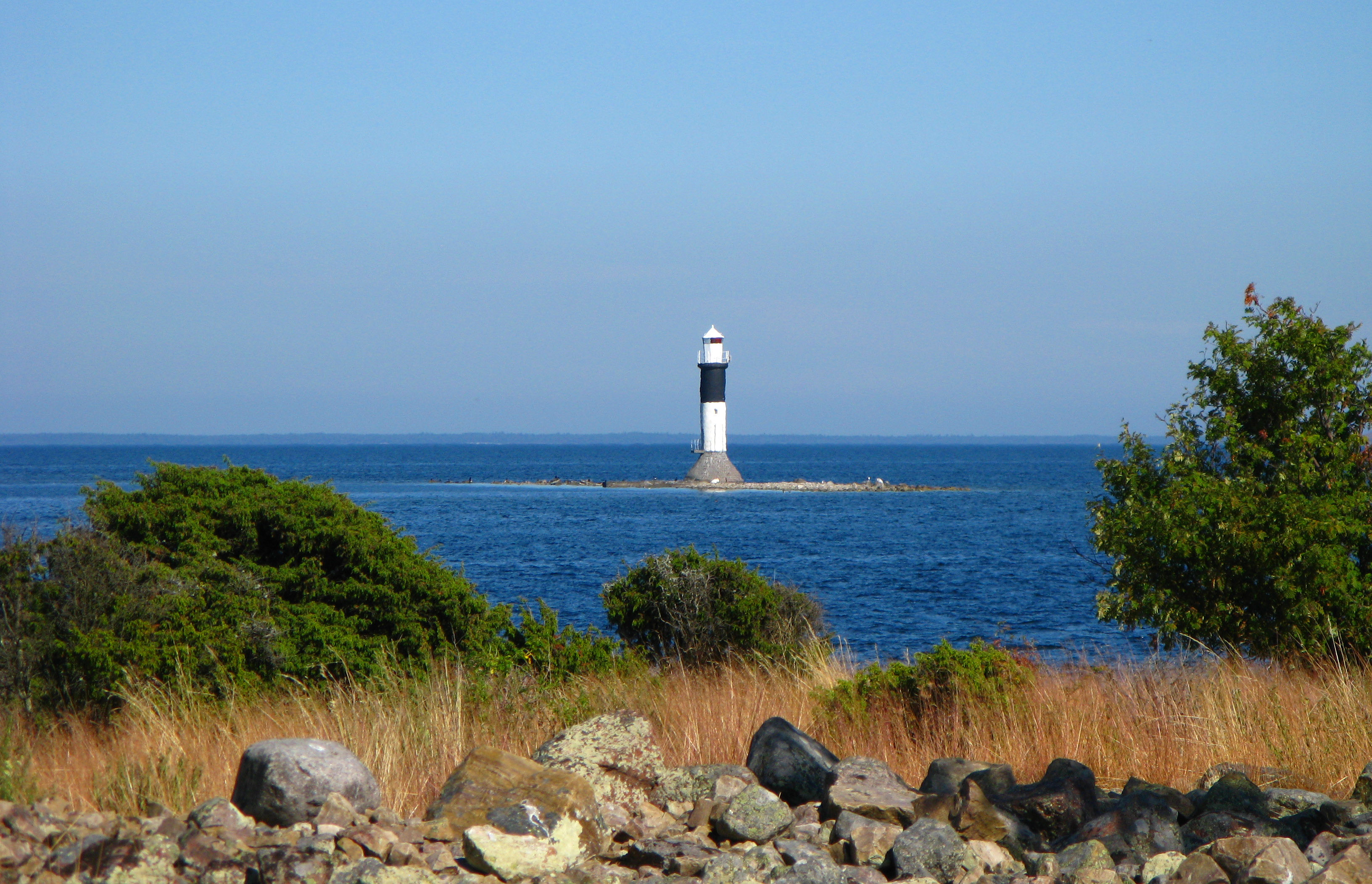 Lighthouse Finnrevet outside Oskarshamn in Baltic Sea.